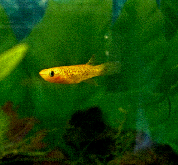 Aphyosemion australe f. gold (female)